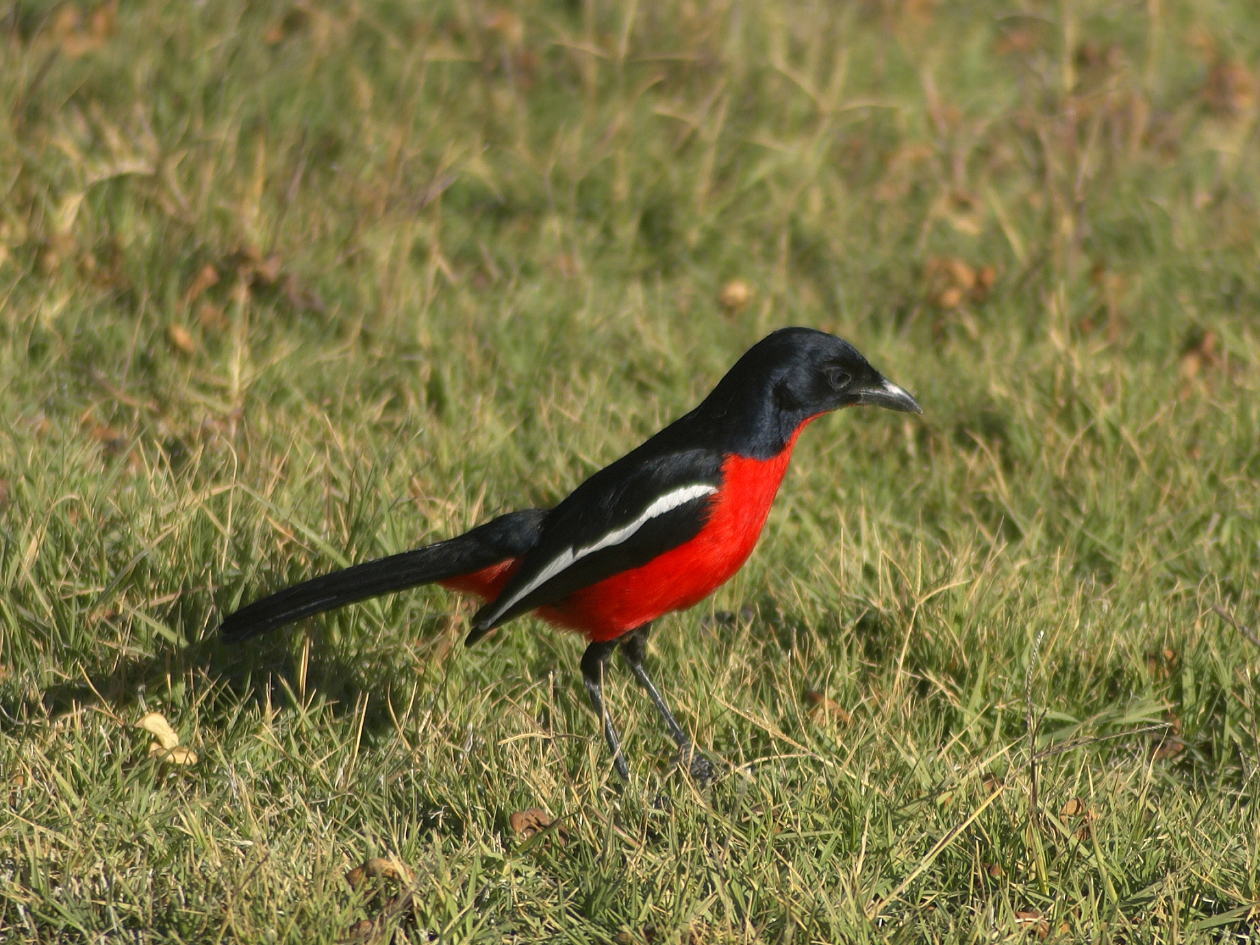 A Crimson-breasted Shrike in Okaukuejo, Etosha National Park, Namibia